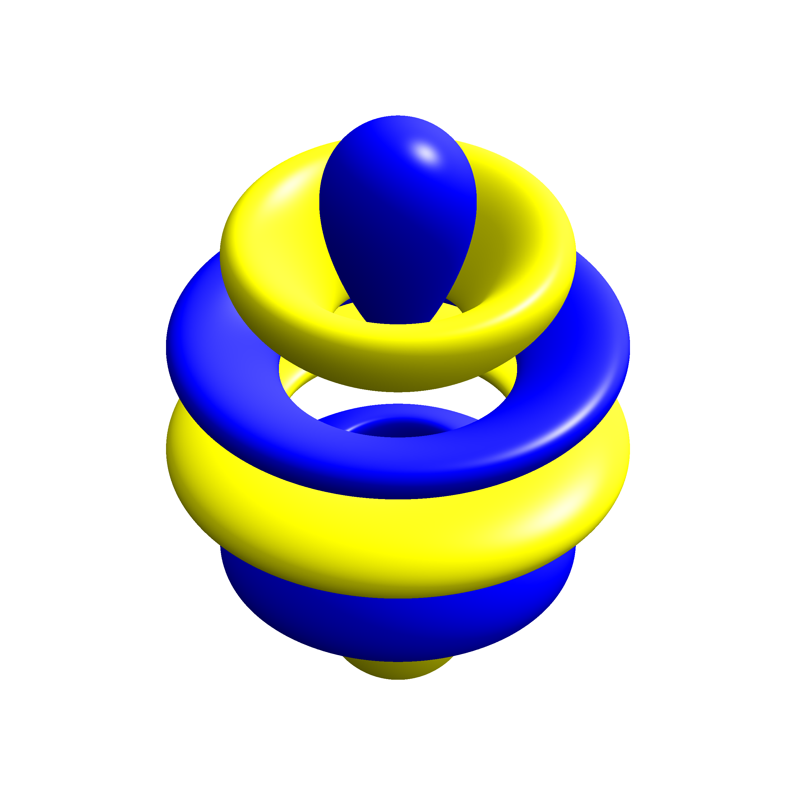 Calculated 6h0 orbital of an electron's eigenstate in the Coulomb-field of a hydrogen nucleus. An eigenstate is a state which keeps it's shape except for a complex phase when the Hamilton operator is applied, thus being invariant in time while obeying the Schrödinger equation. The wavefunction is: ψ 6 , 5 , 0 ( r , ϑ , φ ) = ( 1 3 a 0 ) 3 1 12 ⋅ 11 ! ⋅ e − r / ( 6 a 0 ) ⋅ ( r 3 a 0 ) 5 ⋅ Y 5 0 ( ϑ , φ ) {\displaystyle \psi _{6,5,0}(r,\vartheta ,\varphi )={\sqrt \left({\frac {1}{3\,a_{0 }\right)}^{3}{\frac {1}{12\cdot 11! \cdot e^{\textstyle -r/(6\,a_{0})}\cdot \left({\frac {r}{3\,a_{0 }\right)^{5}\cdot Y_{5}^{0}(\vartheta ,\varphi )} The state is an eigenstate of H, L² and Lz, which constitute a complete set of commuting observables. The quantum numbers mean that the following quantities have a sharp certain value: n = 6: Energy: E = − 1 R y / n 2 = − 13.6 e V / 36 {\displaystyle E=-1\,\mathrm {Ry} /n^{2}=-13.6\,\mathrm {eV} /36} l = 5: Angular momentum: | L | = l ( l + 1 ) ℏ = 30 ℏ {\displaystyle |L|={\sqrt {l\,(l+1) \,\hbar ={\sqrt {30 \,\hbar } m = 0: Angular momentum in z-direction: L z = m ℏ = 0 {\displaystyle L_{z}=m\,\hbar =0} Since l=5, this is called a h-orbital. The orbital is aligned around the z-axis, but remains an eigenfunction of H and L² if rotated to any direction. The depicted rigid body is where the probability density exceeds a certain value. The color shows the complex phase of the wavefunction, where blue means real positive, red means imaginary positive, yellow means real negative and green means imaginary negative. The image is raytraced using modified Phong lighting. The fine structure is neglected.